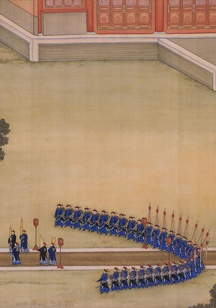 The Yongzheng Emperor Offering Sacrifices at the Altar of the God of Agriculture (detail), by anonymous court artists, 1723—35. Handscroll, colour on silk. The Palace Museum, Beijing.